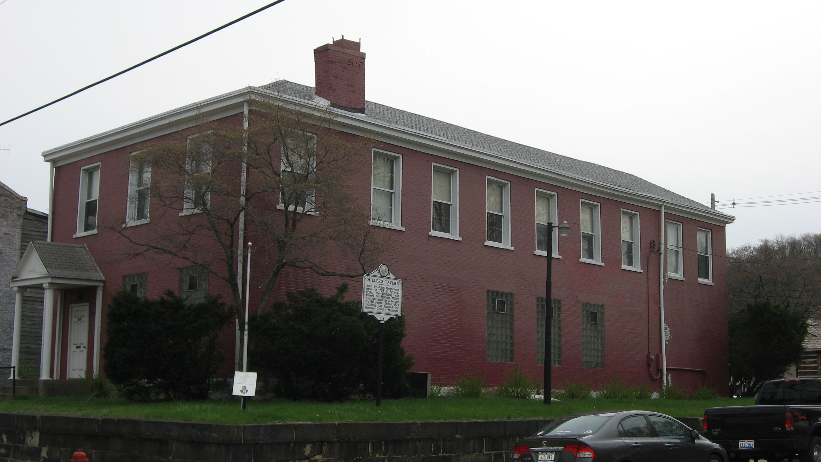 Front and southern side of Miller's Tavern, located on the northeastern corner of the intersection of Sixth and Main Streets in downtown Wellsburg, West Virginia, United States. Built in 1797, it is listed on the National Register of Historic Places, and it is part of a Register-listed historic district, the Wellsburg Historic District.